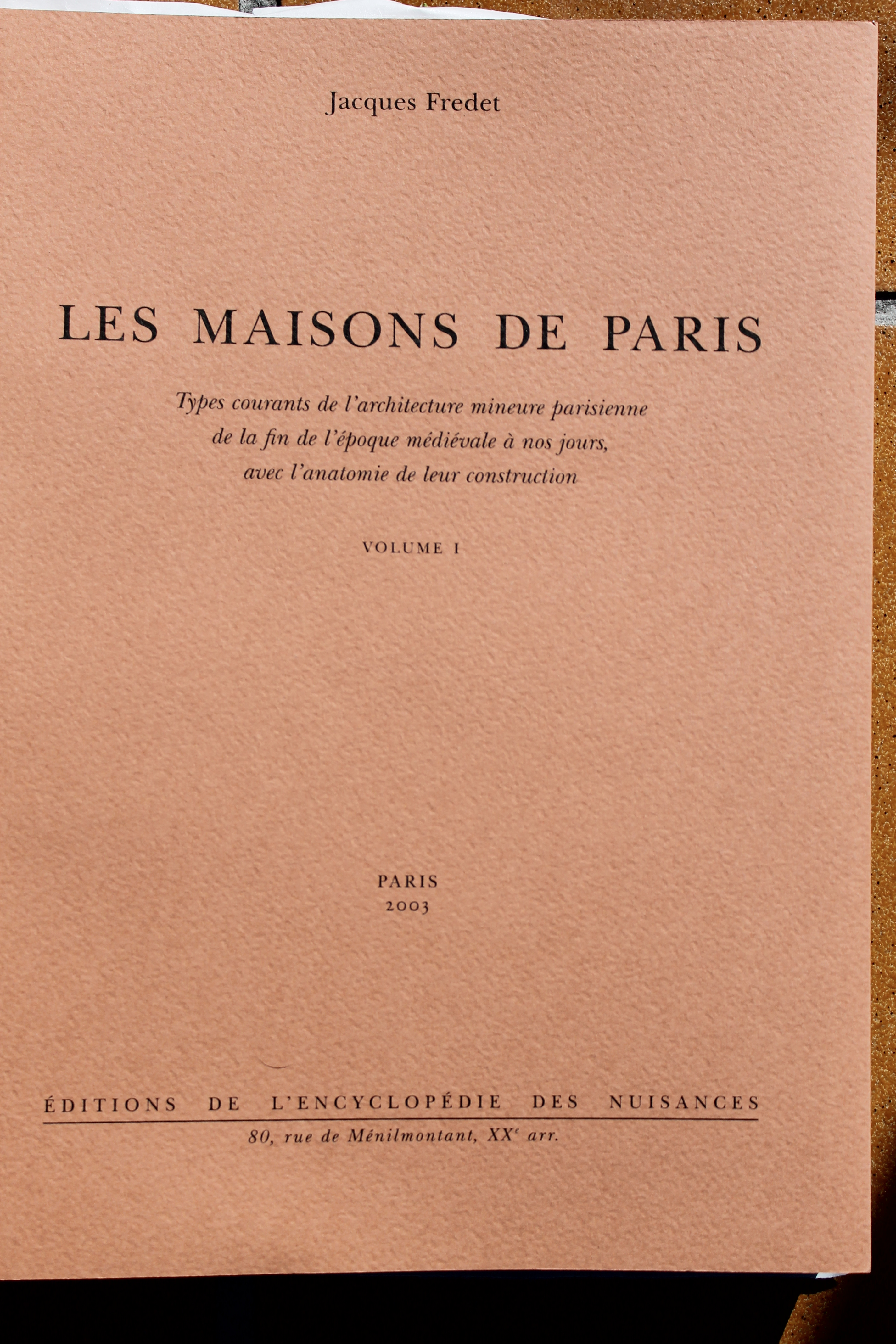 Les Maisons de Paris by Jacques Fredet